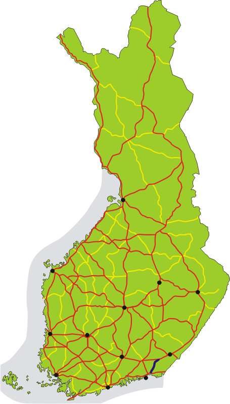 Map of the main road (highway) 26 in Finland, shown in dark blue. The other 1st class main roads (numbers 1–29) are red, 2nd class main roads (numbers 40–98) yellow. Black dots show the 12 biggest urban areas.